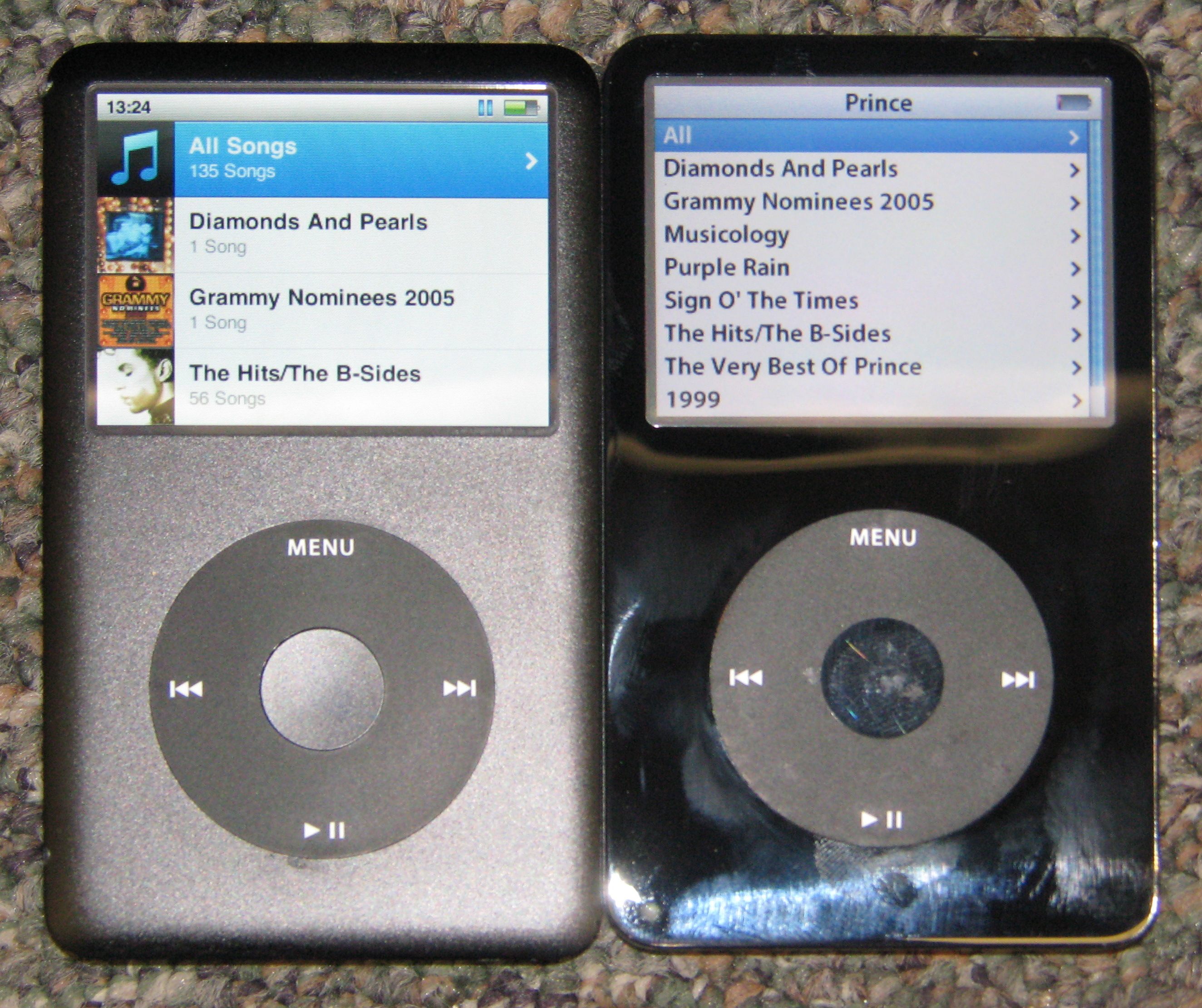 iPod classic side-by-side